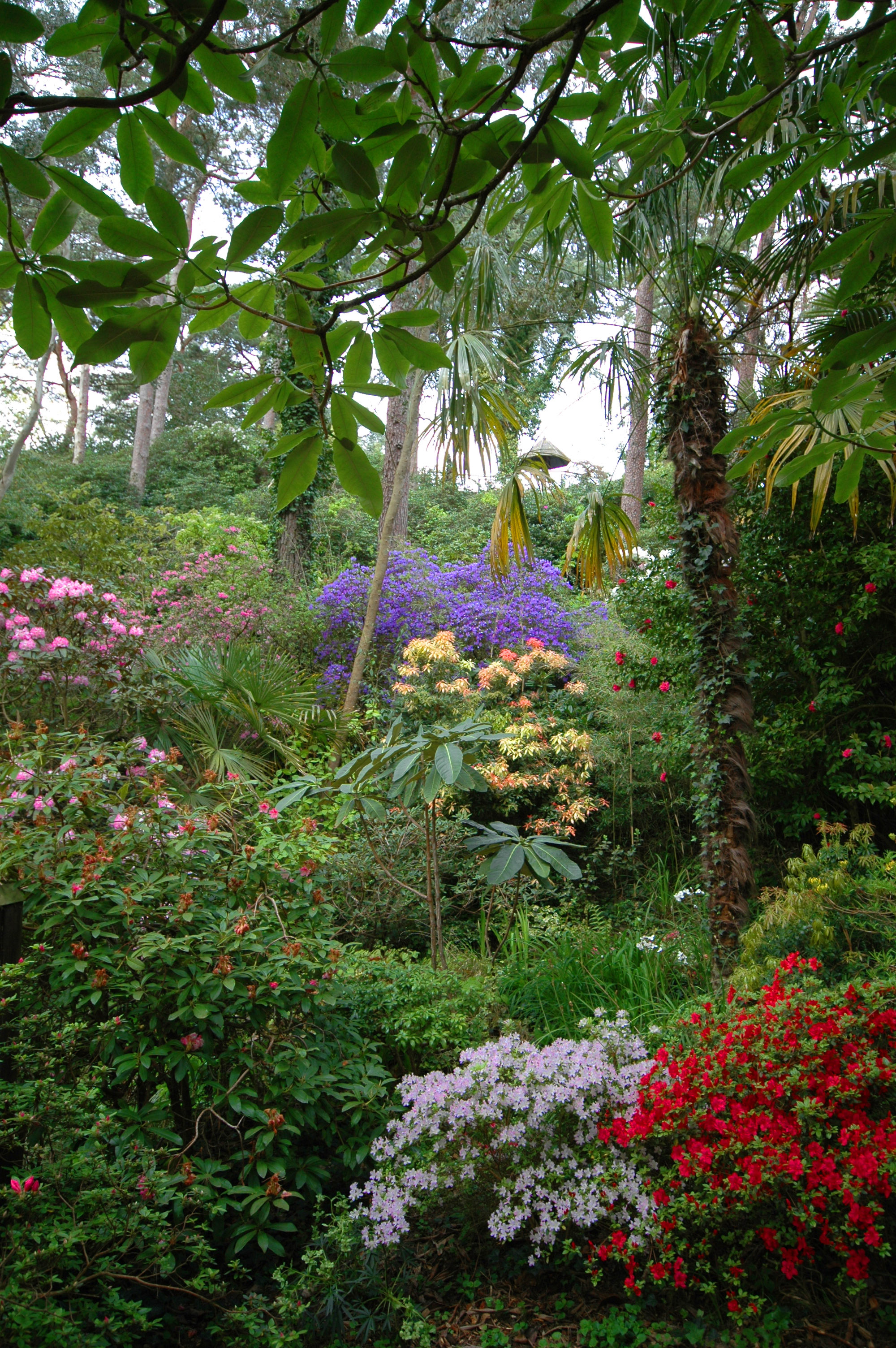 Compton Acres, Poole, Dorset, England